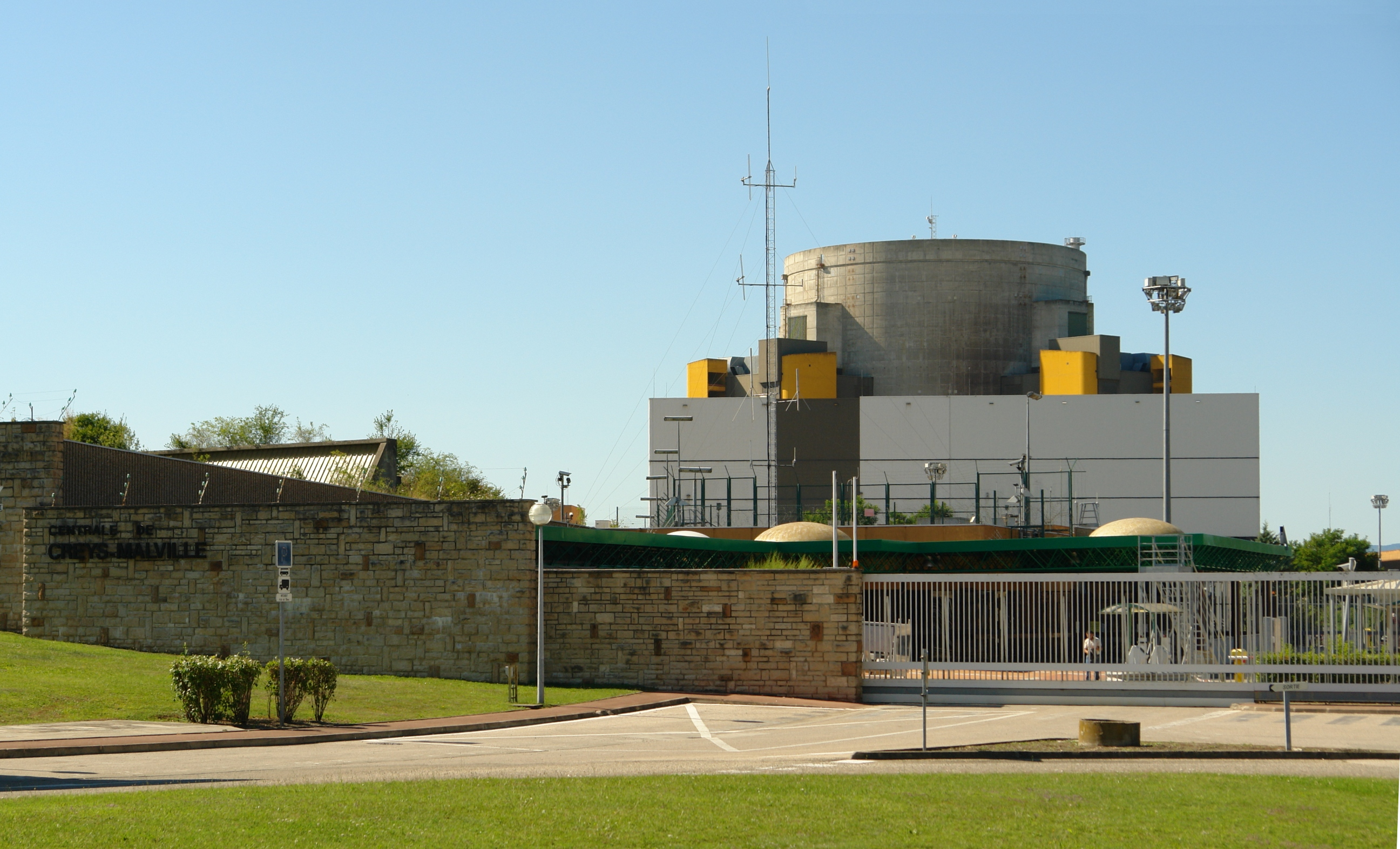 Superphenix, a nuclear power plant built along the Rhone River at the Creys-Malville site, in Creys-Mépieu (Isère, Rhône-Alpes, France).